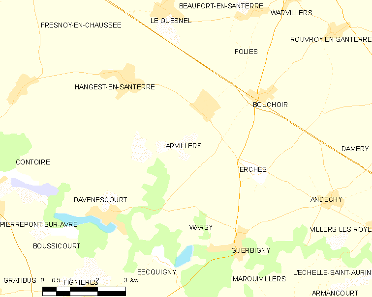 Map of French municipality Arvillers